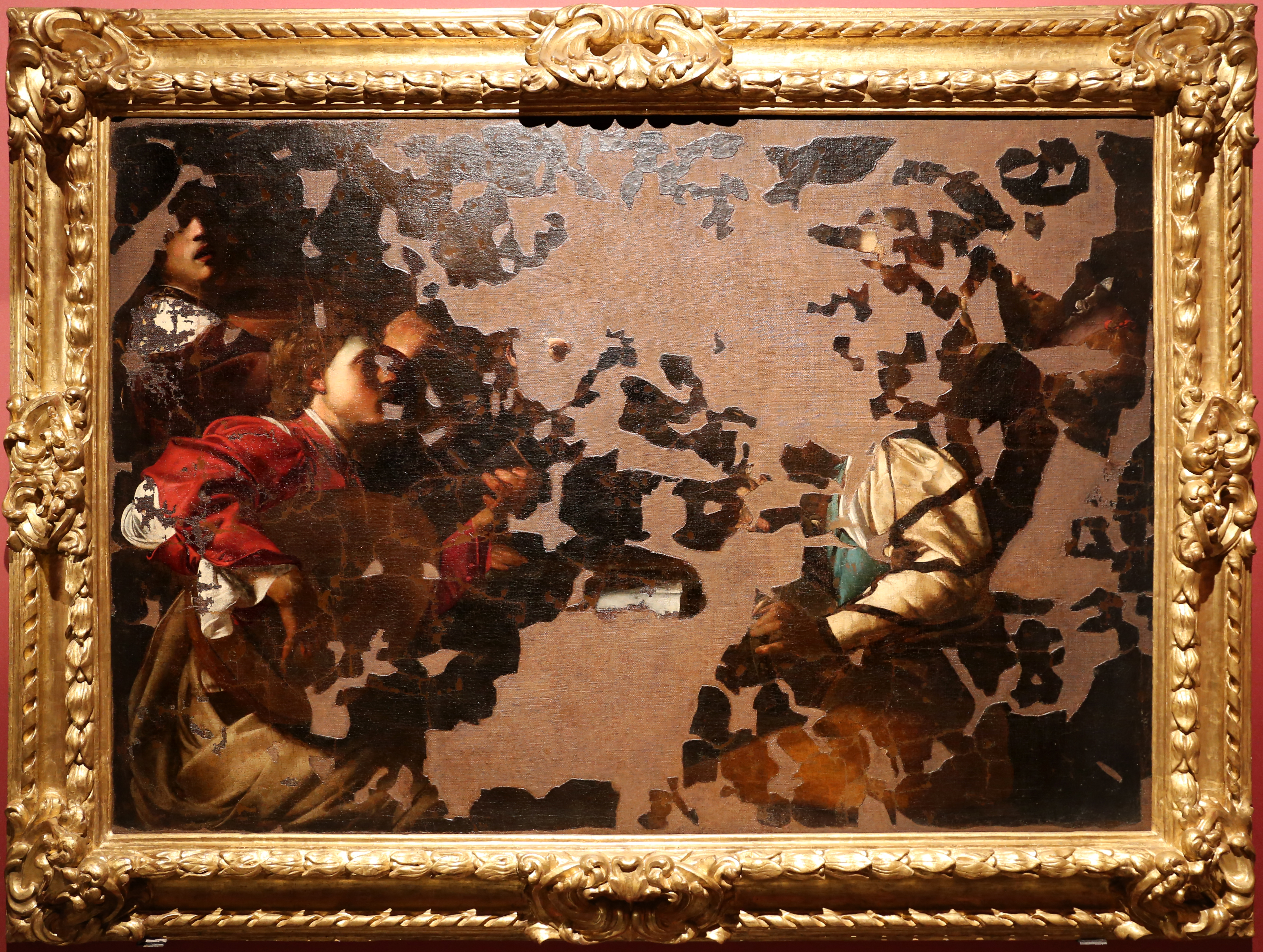 La Tutela Tricolore (2016 exhibition)